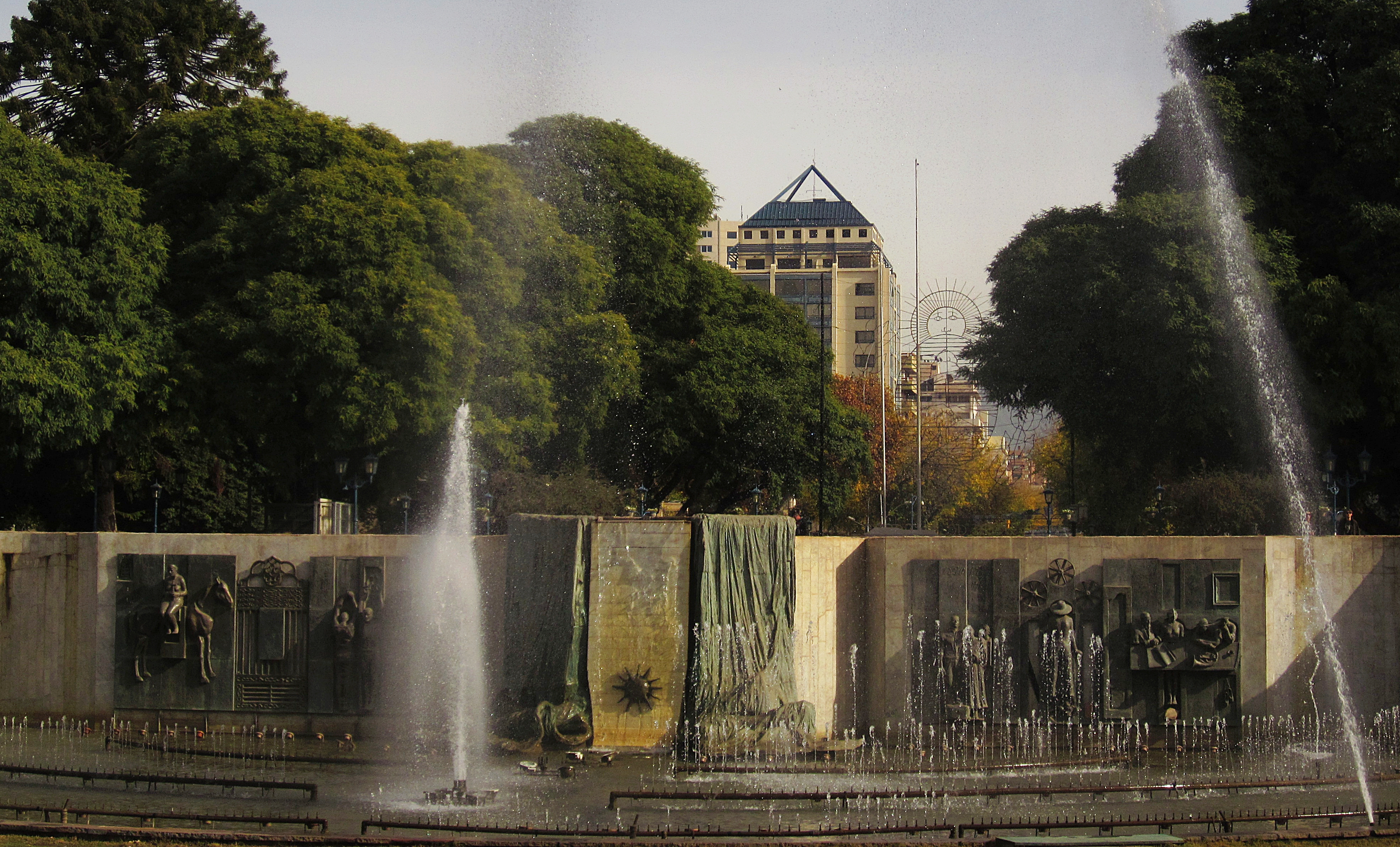 Plaza Independencia, la más grande e importante de la Provincia de Mendoza.